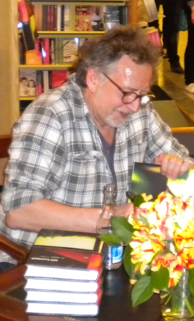 Ulf Lundell book signing, Stockholm 2010-04-23